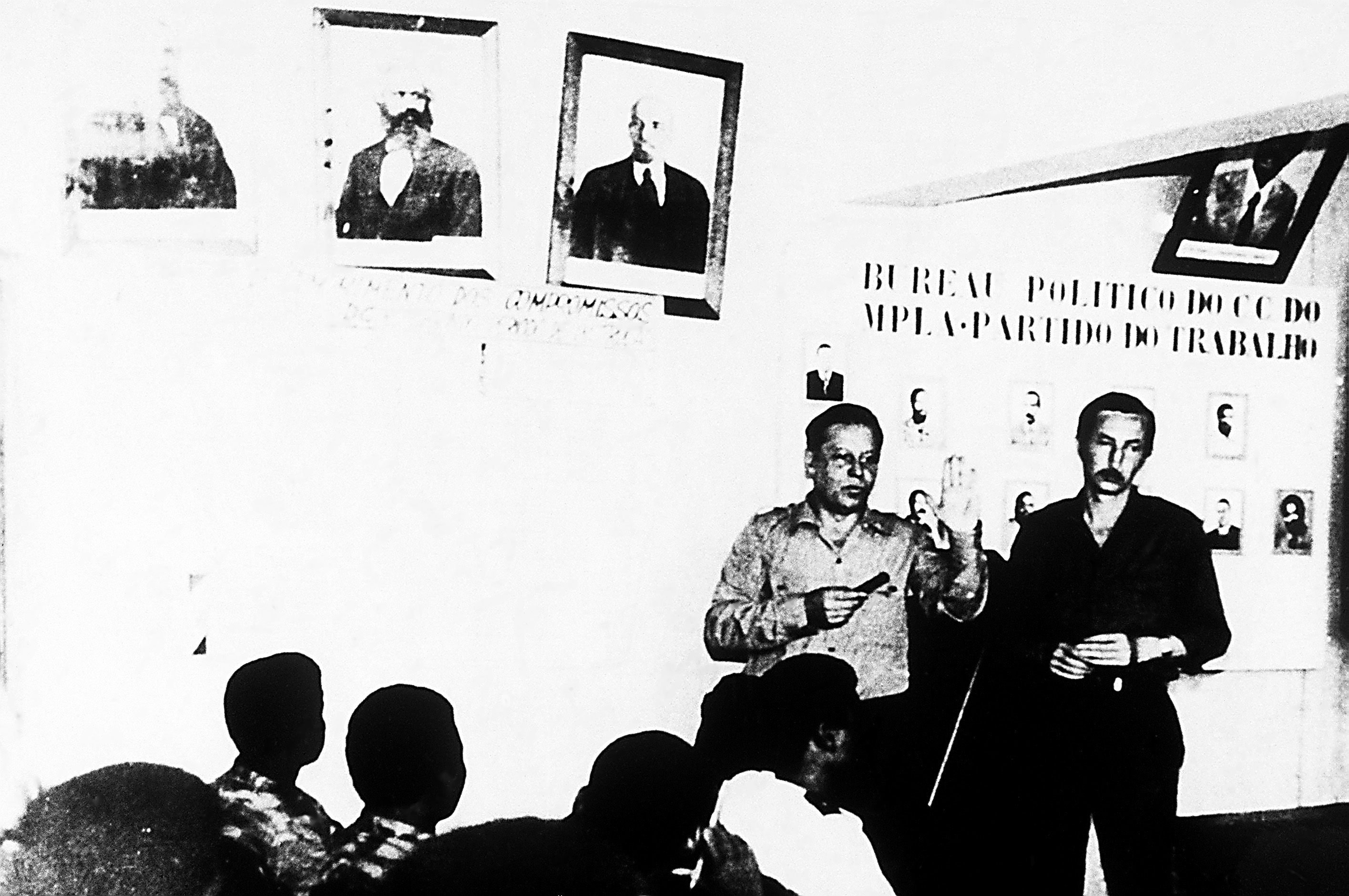 Soviet and East Bloc military advisors in Angola.